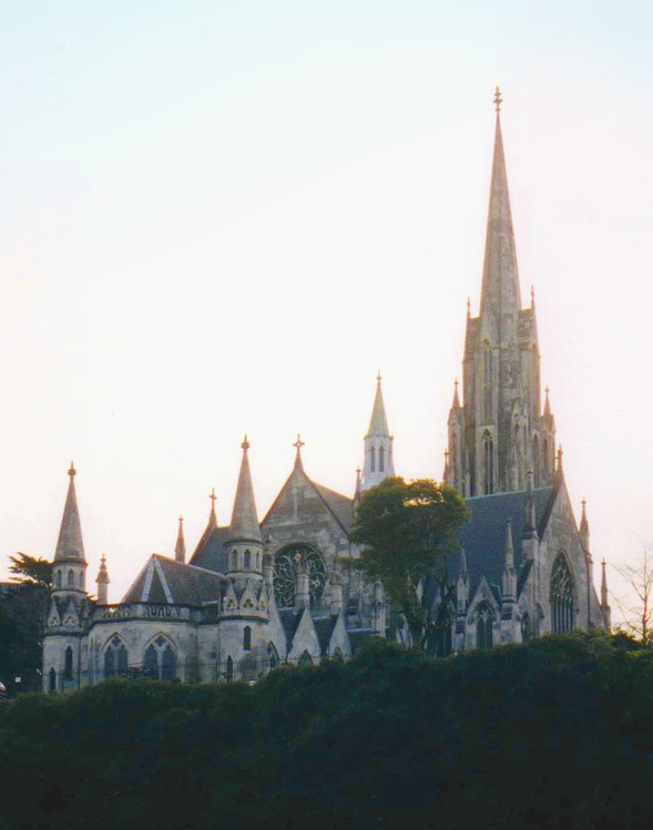 First Church, Dunedin. Photograph by James Dignan, June 2005